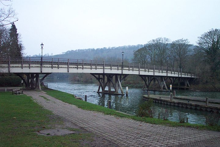 Goring and Streatley Bridge viewed from beside Goring Lock.